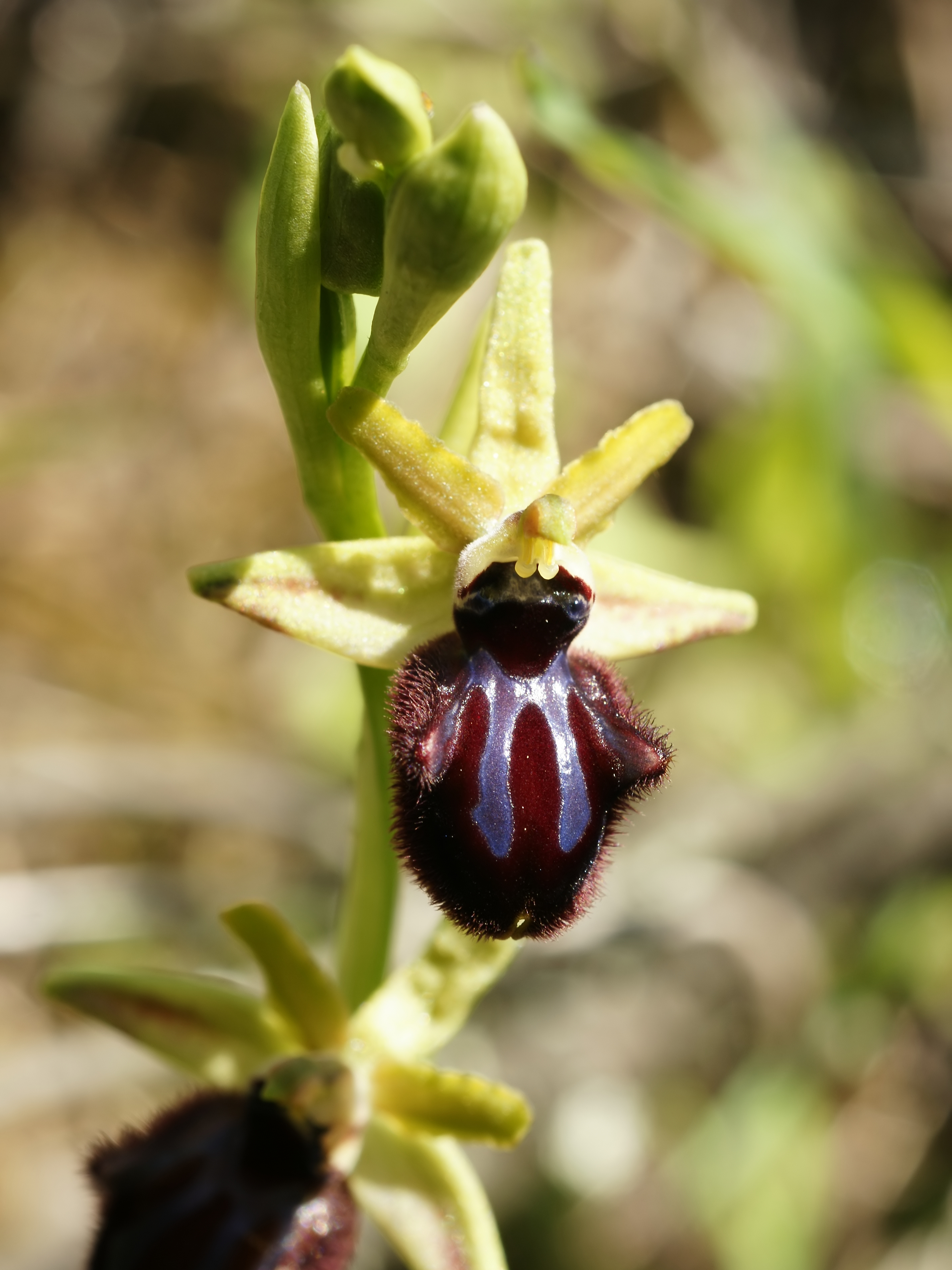 Black Ophrys. Approximate co-ordinates: plant located within 5 km from Neoneli, Sardinia, Italy